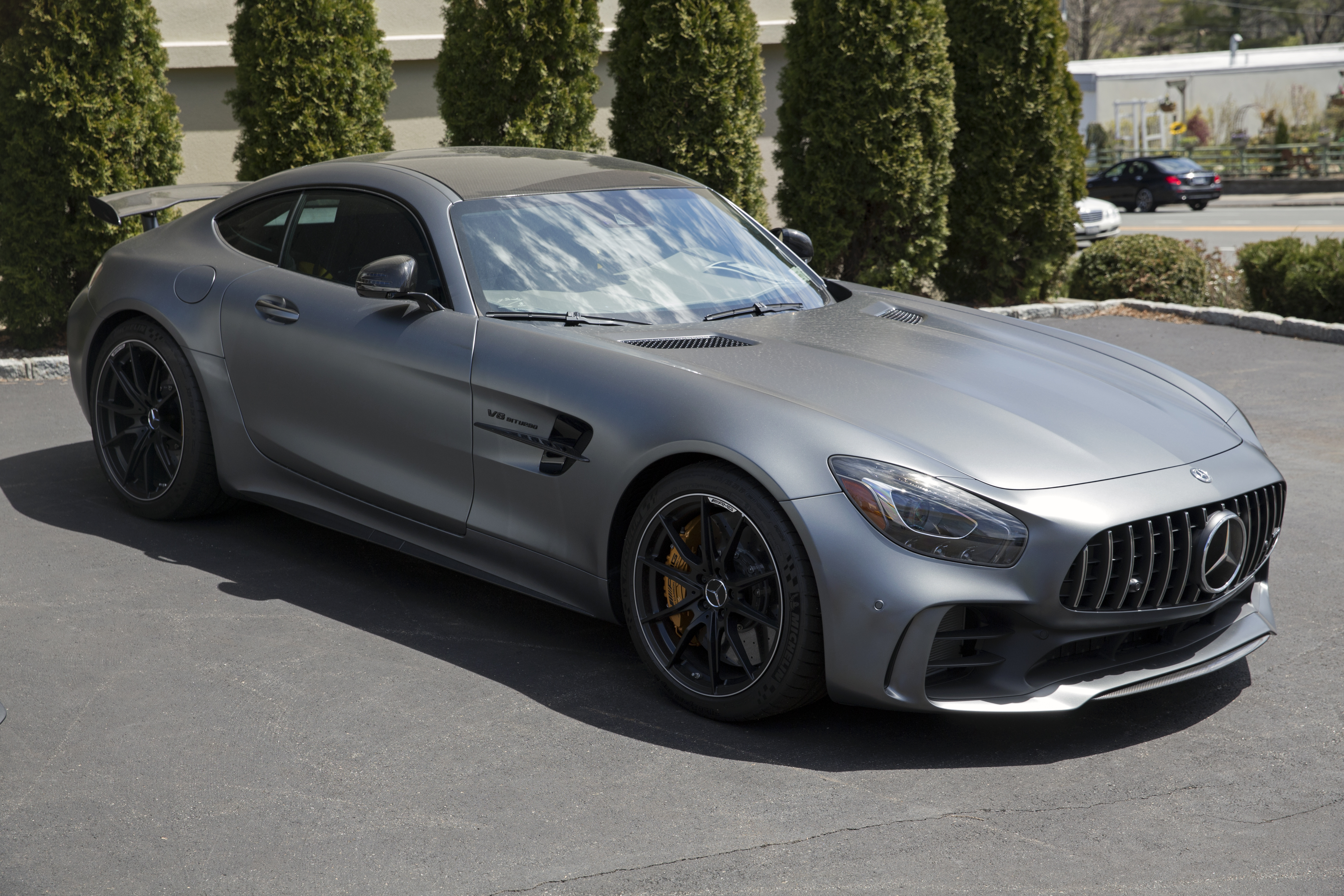 A used 2018 Mercedes-Benz AMG GT-R, at a dealership in Long Island, NY. Designo Selenite Grey Magno exterior, black interior with yellow piping. Also, just about every possible carbon fiber option box has been checked.